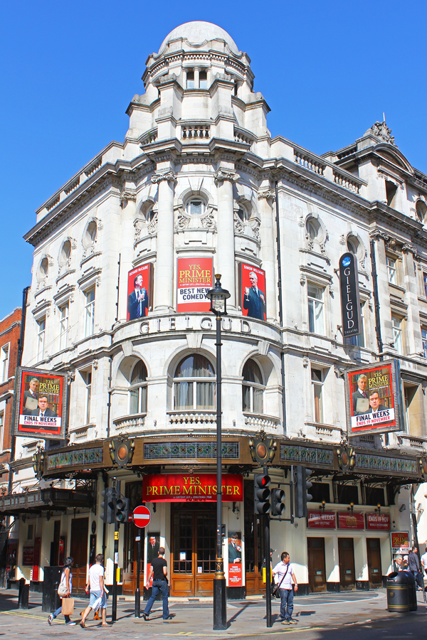 Gielgud Theatre near Piccadilly Circus, central London.